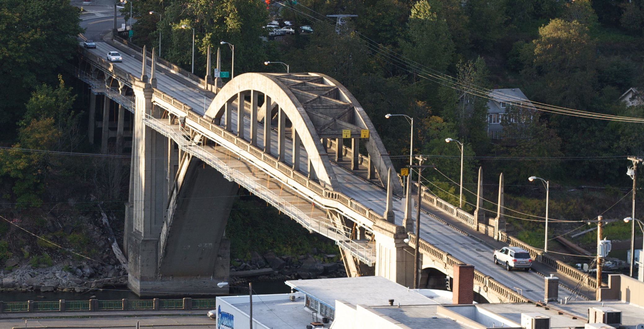 Picture of the Oregon City Bridge taken from McLoughlin Promenade. At the time of this 2009 photo, a temporary platform was attached to the underside of the bridge, for use by workers preparing the bridge – by relocating cables and wires – for a major renovation, and also during the renovation, which took place in 2010–12.